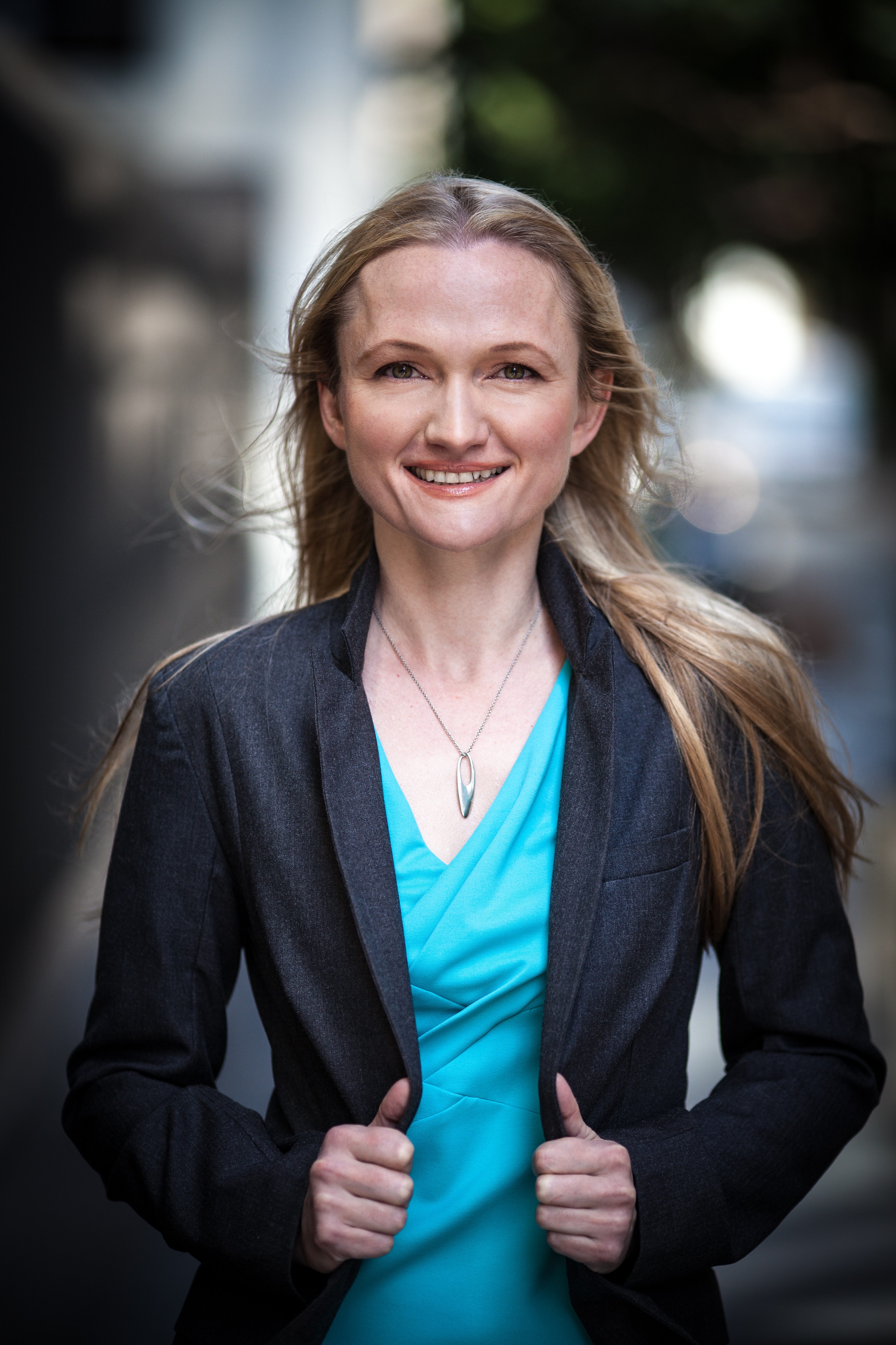 Photo of WMF Executive Director Lila Tretikov.